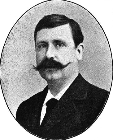 Agisilaos Giannopoulos (1852-1895): Greek journalist